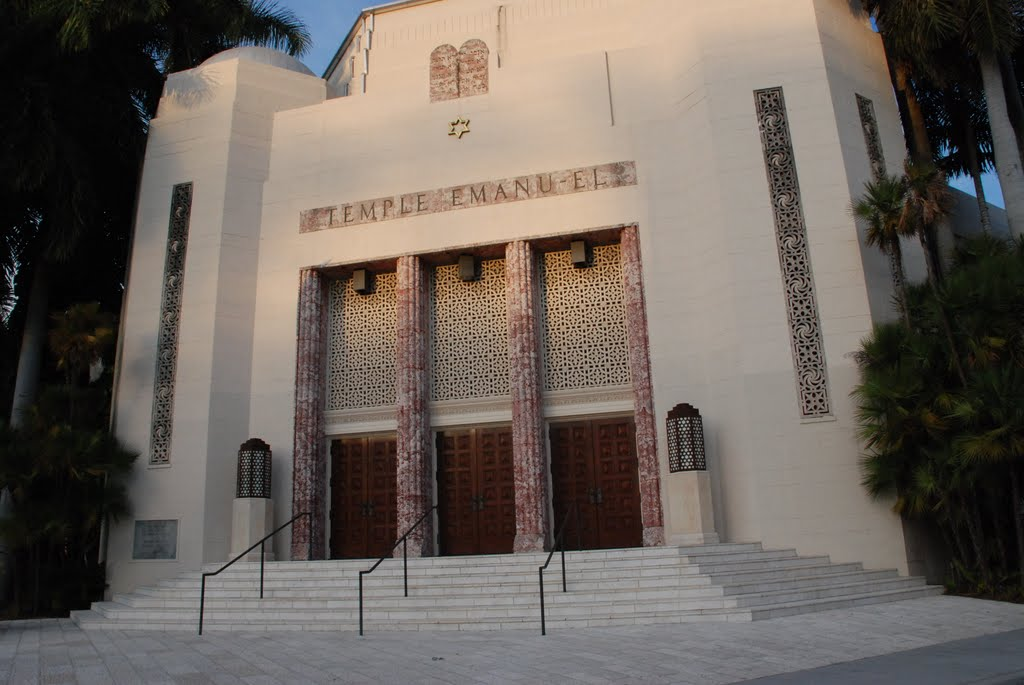 Temple Emanu-El, Miami Beach